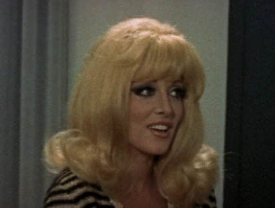 Isabella Biagini in a scene of the film Pensando a te